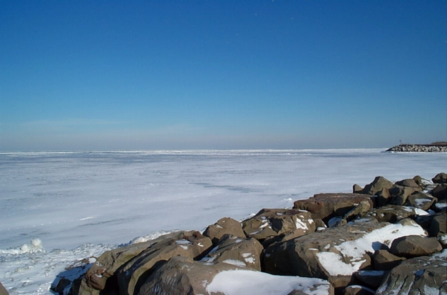 Lake Erie (frozen) from Cleveland Ohio